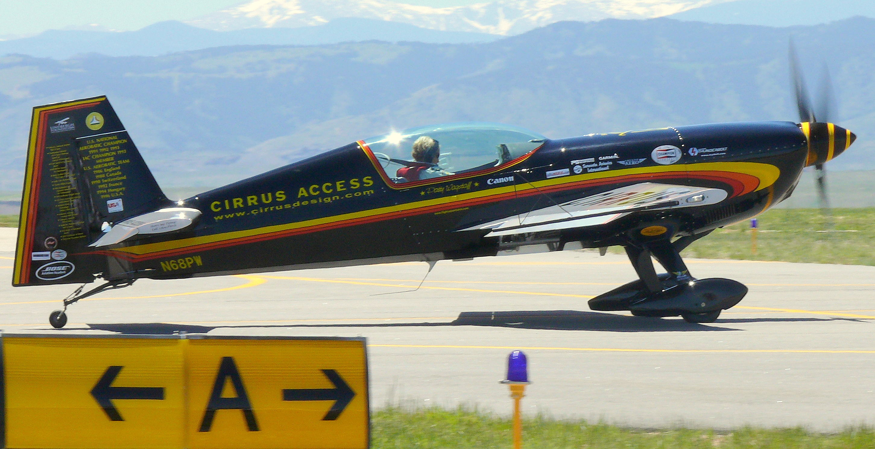 Patty Wagstaff taxiing in her Extra 300S for show at Jeff Co Airport, Denver, Colorado, USA